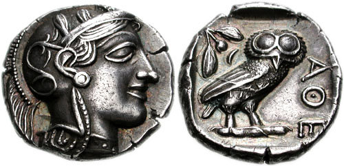 Athens. 449-404 BC. AR Tetradrachm (25mm, 17.13 g). Head of Athena right, wearing crested Attic helmet / AQE, owl standing right; olive sprig and crescent behind; all within incuse square.